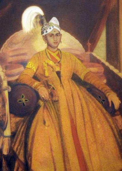 Swathi Thirunal Rama Varma